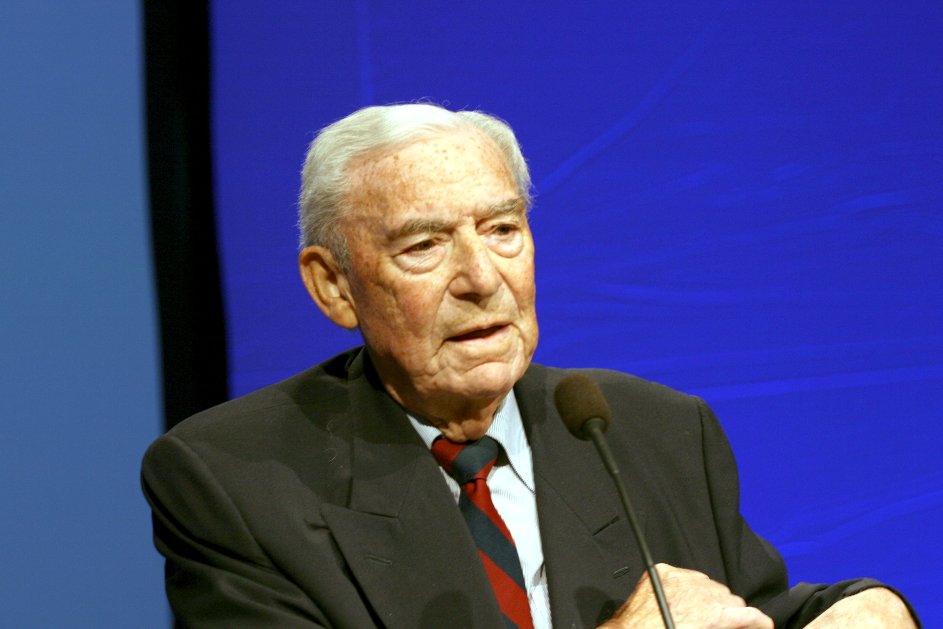 Jo Benkow, Norwegian politician (Conservative Party).